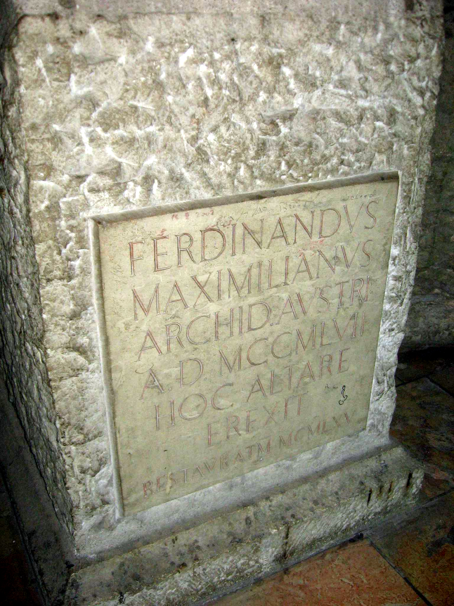 Inscription on altar of St. Helena in Jerusalem: made from Ferdinand-Maximilian in year 1857, renovated 1965